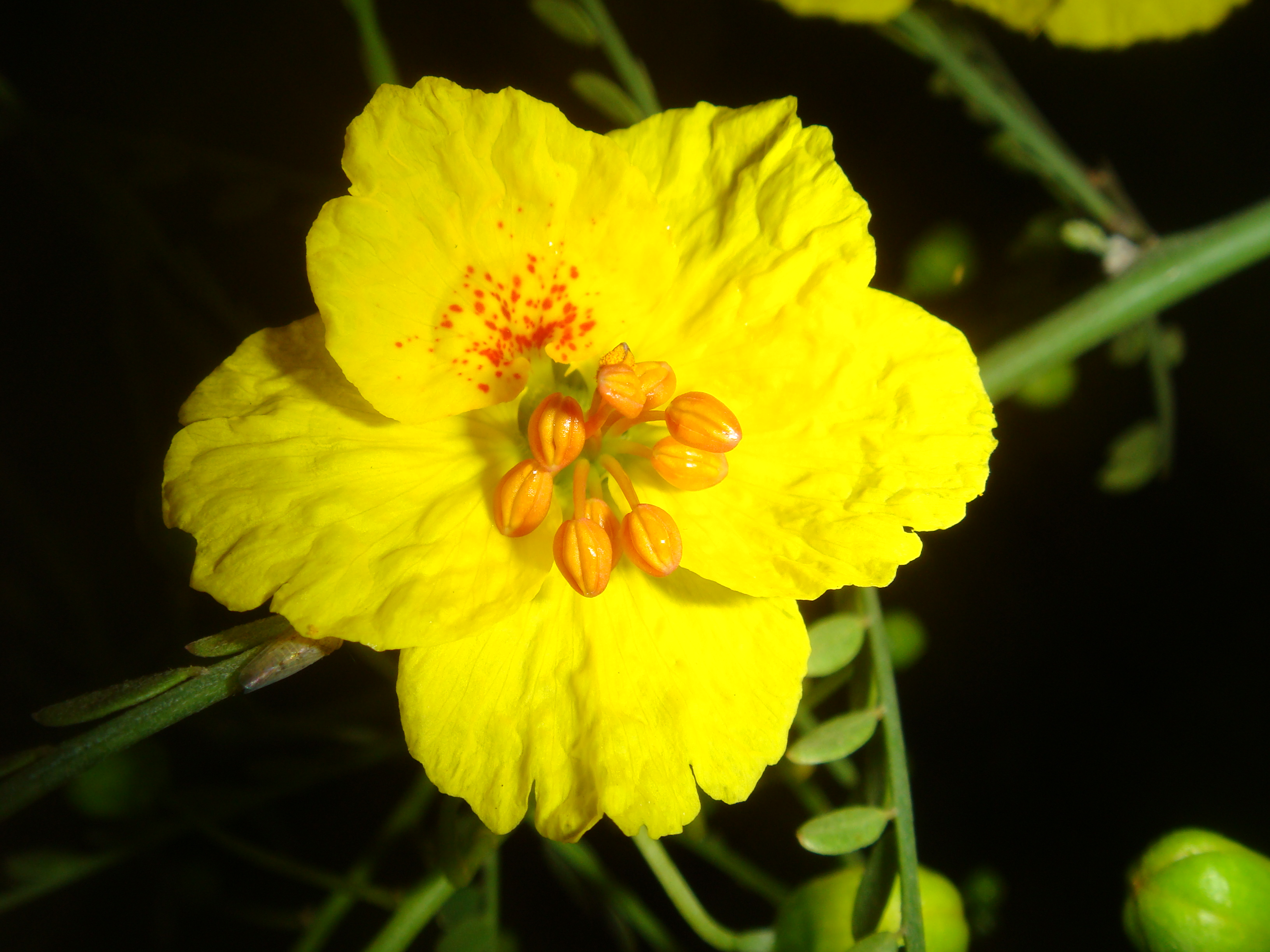 Parkinsonia florida, cultivated, Tempe Marketplace, Tempe, Arizona